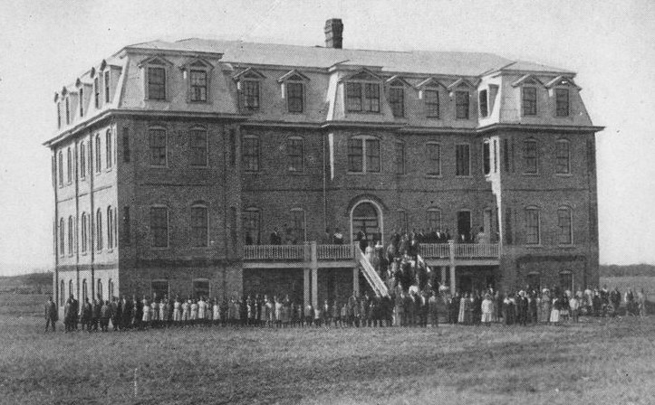 Main building of the Okolona School, Okolona, Mississippi, United States in 1922